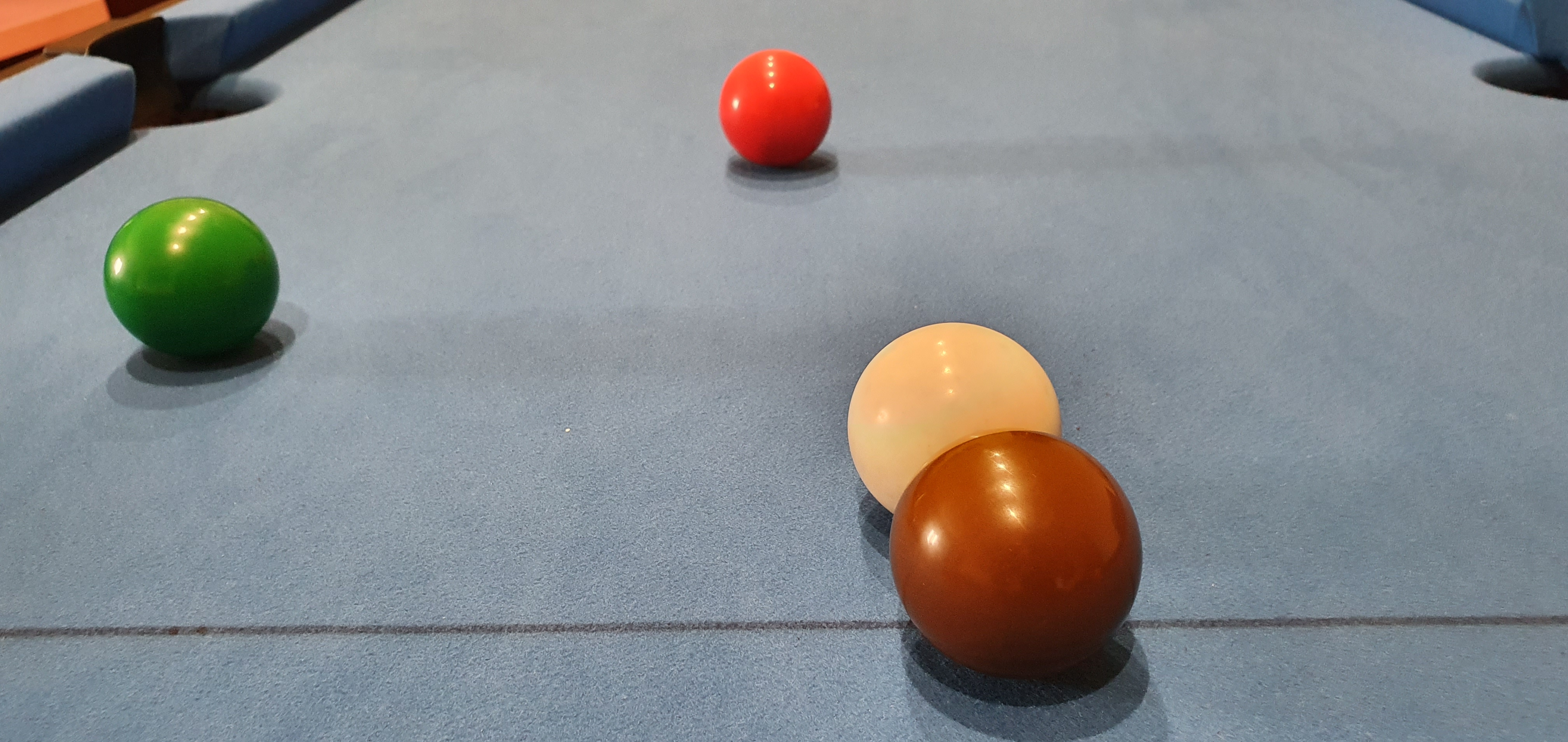 Chinese snooker situation. The ball on is visible against the cue ball, but a colour ball makes difficult the cue ball hit.